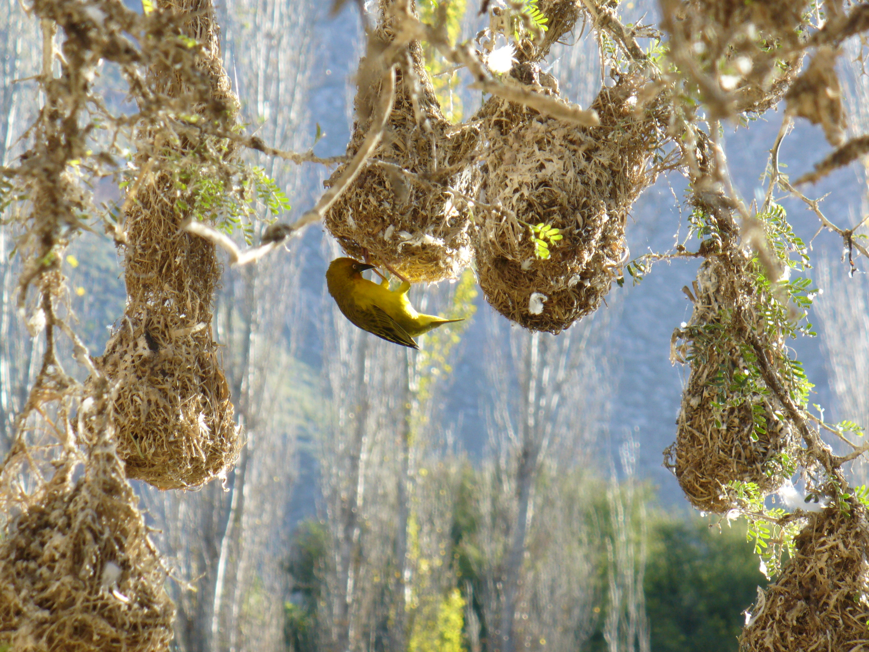 Cape Weaver (Ploceus capensis) and Nests, Langebaan, Cape Province, South Africa